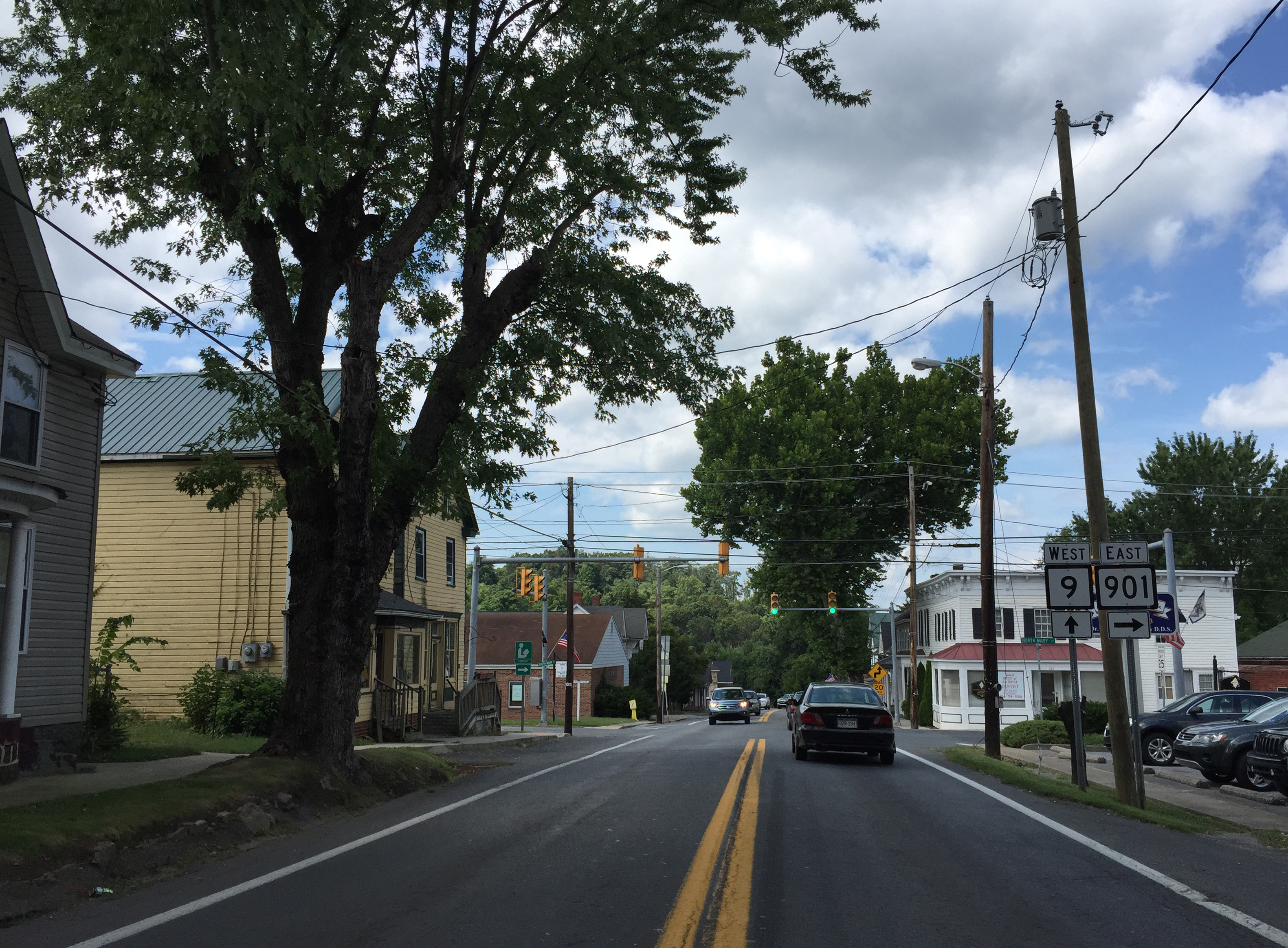 View west along West Virginia State Route 9 (Hedgesville Road) between Zion Street and West Virginia State Route 901 (Mary Street) in Hedgesville, Berkeley County, West Virginia